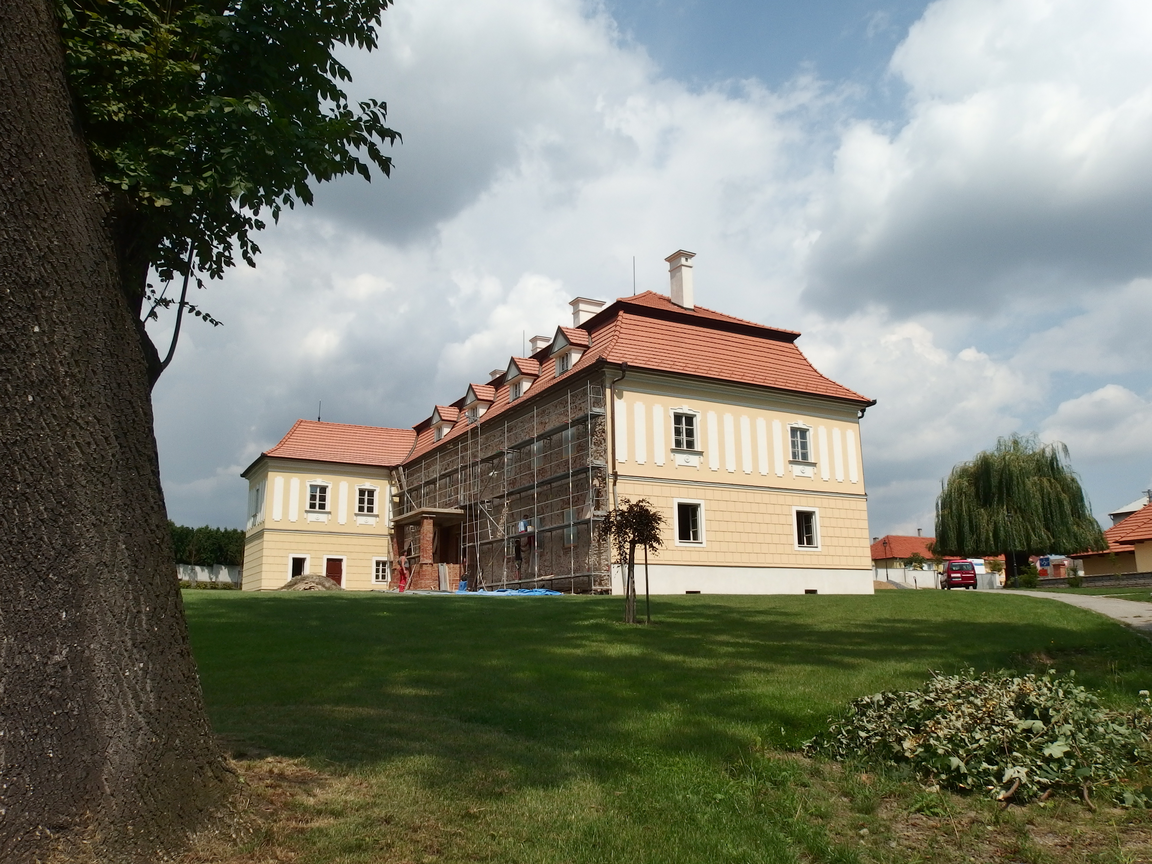 Všechovice, Přerov District, Czech Republic. Castle.